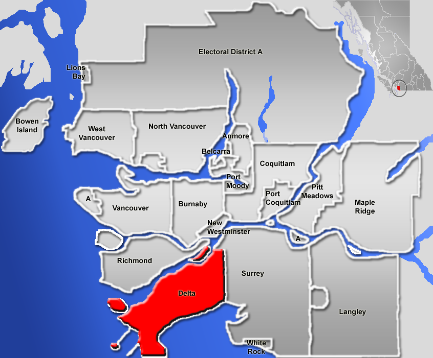 Location of Delta, Greater Vancouver Area, British Columbia